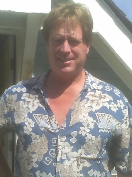 Source: Myself (User:Squishy Vic); after finishing my Senior Project with Mr. Forward, I asked if I could take a picture of him for use on my project's poster board and portfolio. He approved and so I took this picture with my old cell phone, sent it to Yahoo! photos, and downloaded onto my computer.